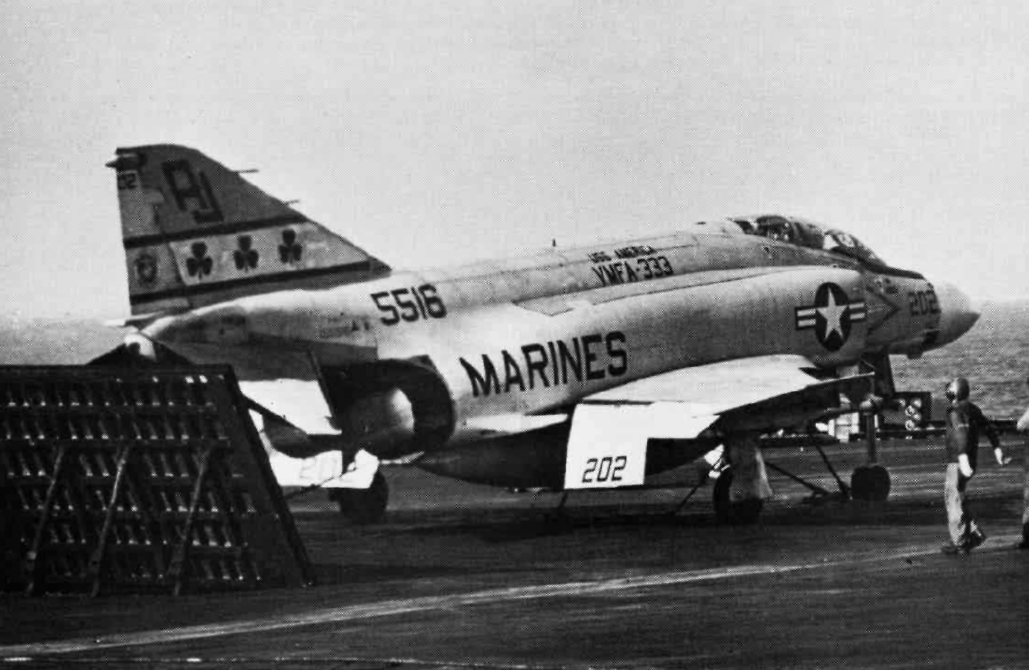 A U.S. Marine Corps McDonnell McDonnell F-4J-33-MC Phantom II (BuNo 155516) from Marine Fighter Attack Squadron VMFA-333 Shamrocks is launched from the aircraft carrier USS America (CVA-66). VMFA-333 was assigned to Carrier Air Wing 8 (CVW-8) aboard the America for a deployment to the Mediterranean Sea from 6 July to 16 December 1971.